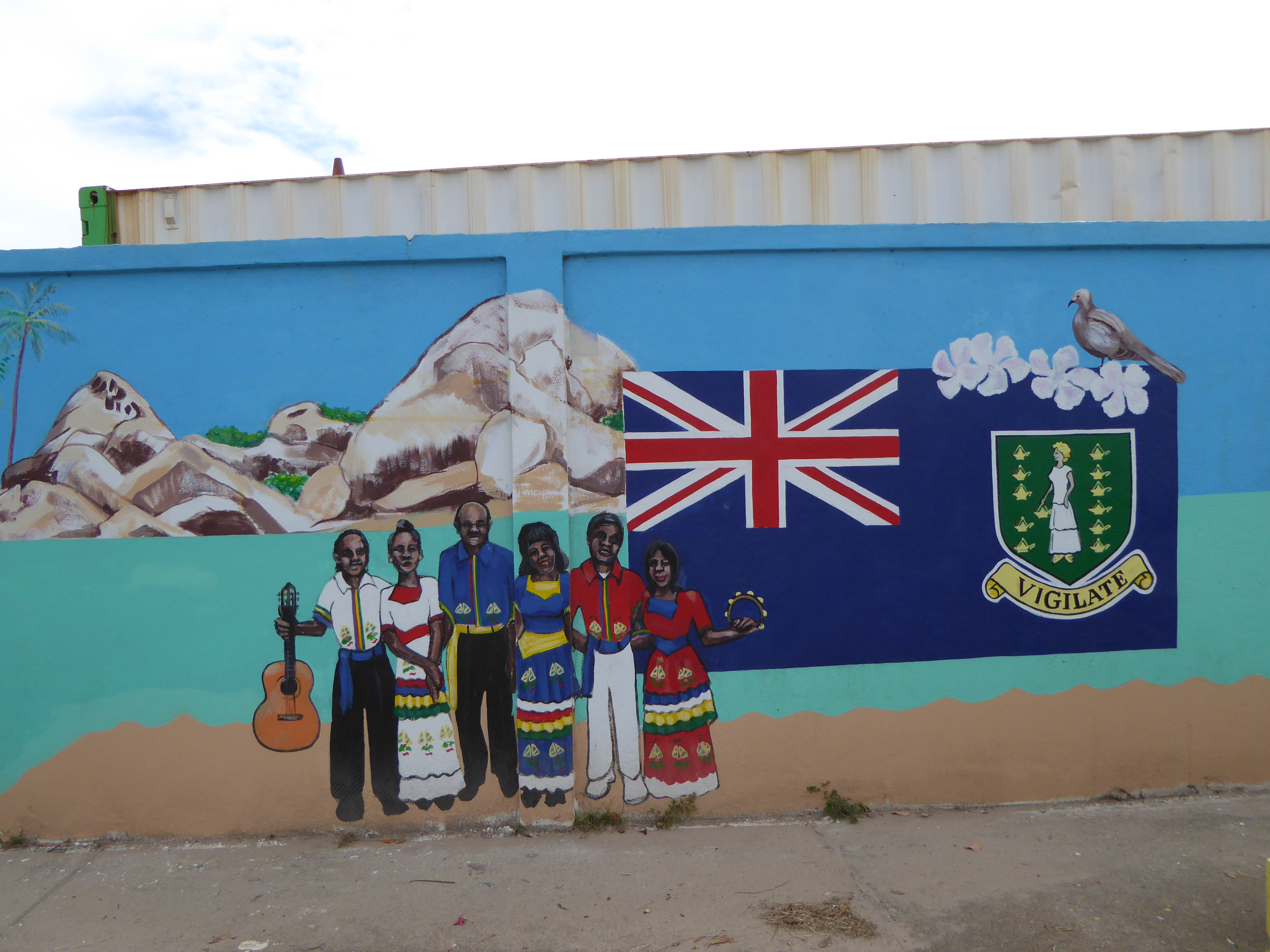 Virgin Gorda, British Virgin Islands — mural